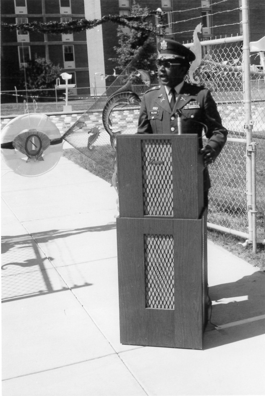 Then-Col. Harvey D. Williams attends a swimming pool ribbon cutting ceremony during his tenure as post commander at Fort Myer, Va. He was the post commander from 1975 to 1977.